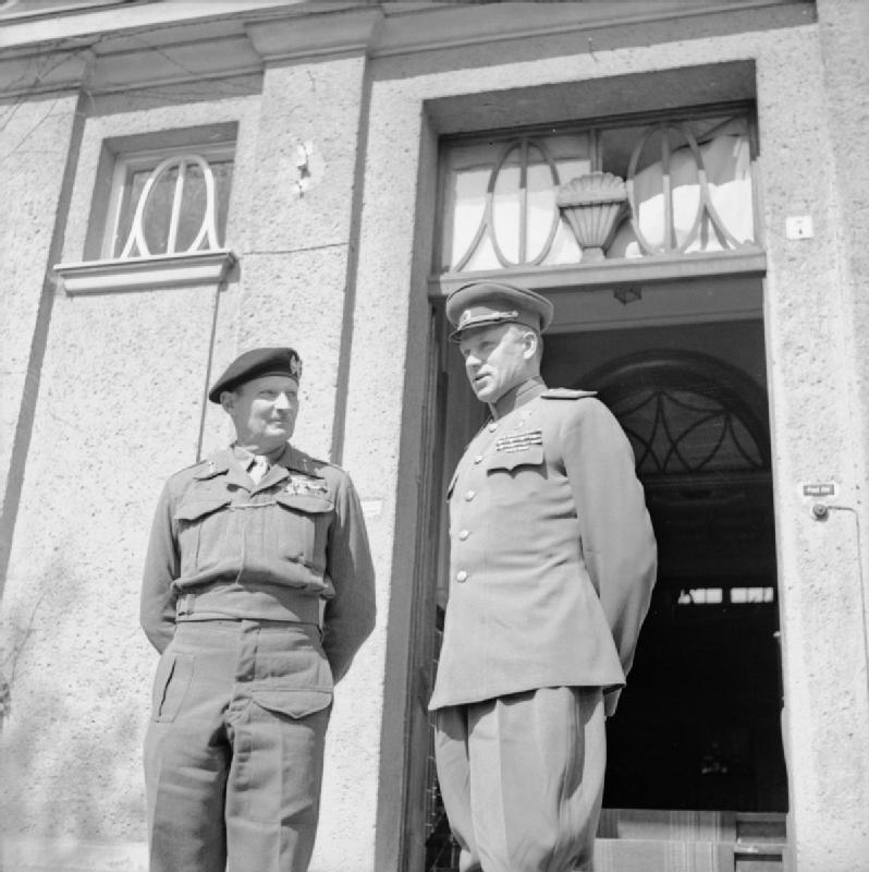 The British Army in North-west Europe 1944-45 Field Marshal Montgomery with Russian Field Marshal Rokossovsky outside 6th Airborne Division HQ at Wismar, 7 May 1945.